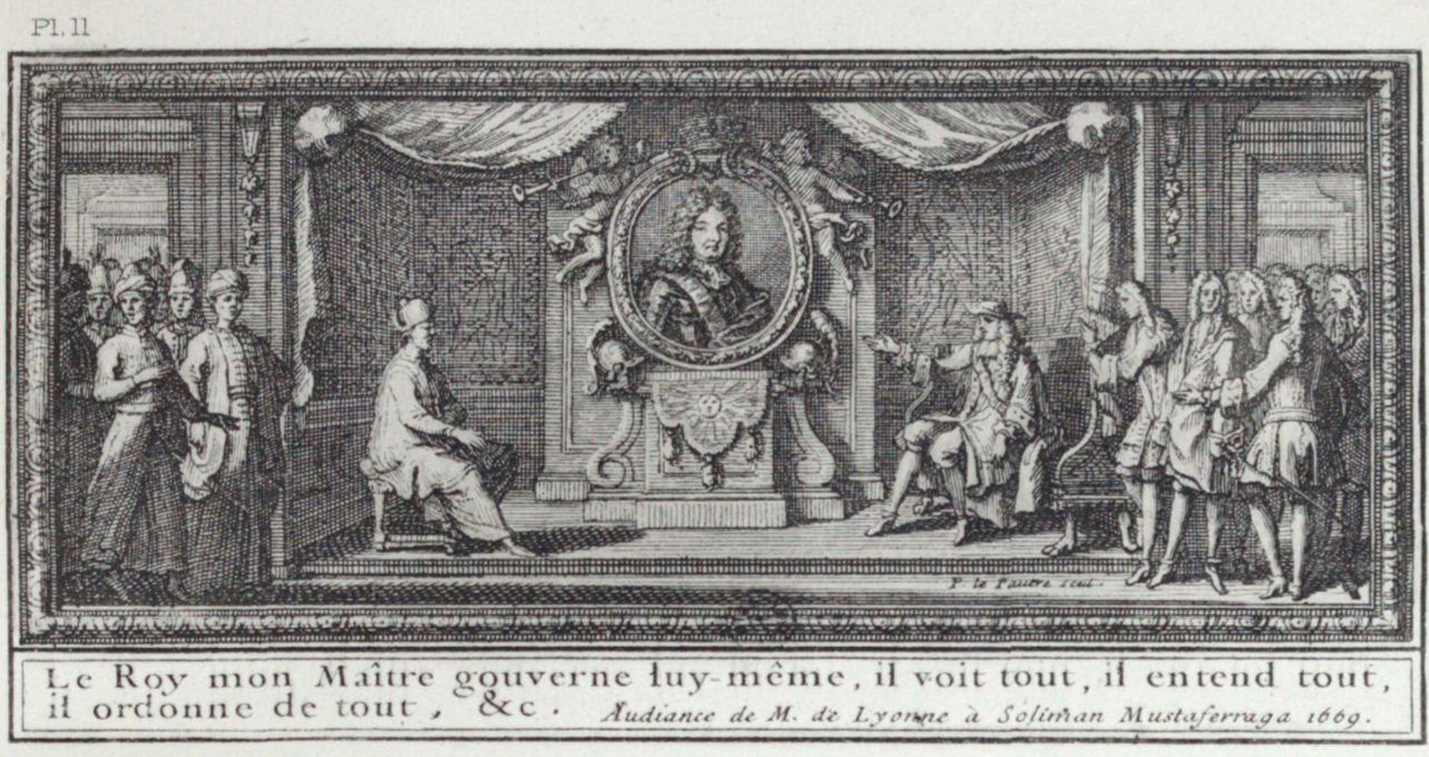 Sulemain Aga, Ottoman envoy to Louis XIV